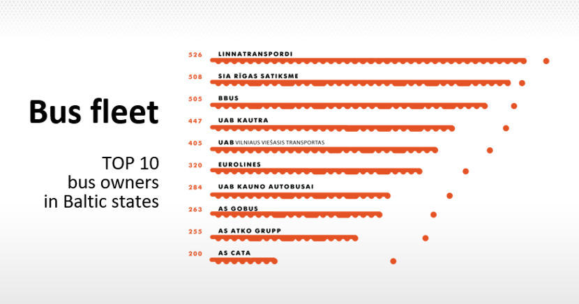 A bus fleet showing top 10 bus owners in Baltic states